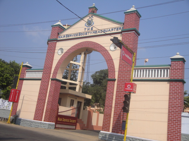 NSS Headquarters Main Gate, Perunna